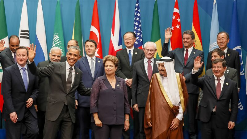 Heads of the 2014 G-20 member state delegations, invited nations and international organisations.